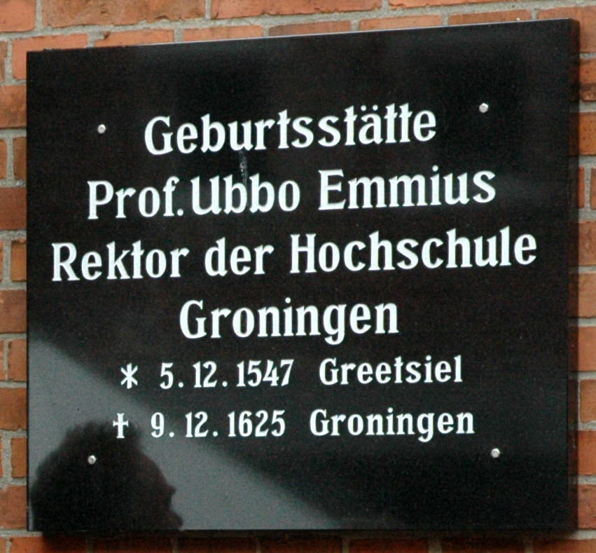 Ubbo Emmius, Memorial, Greetsiel, East-Frisia, Germany